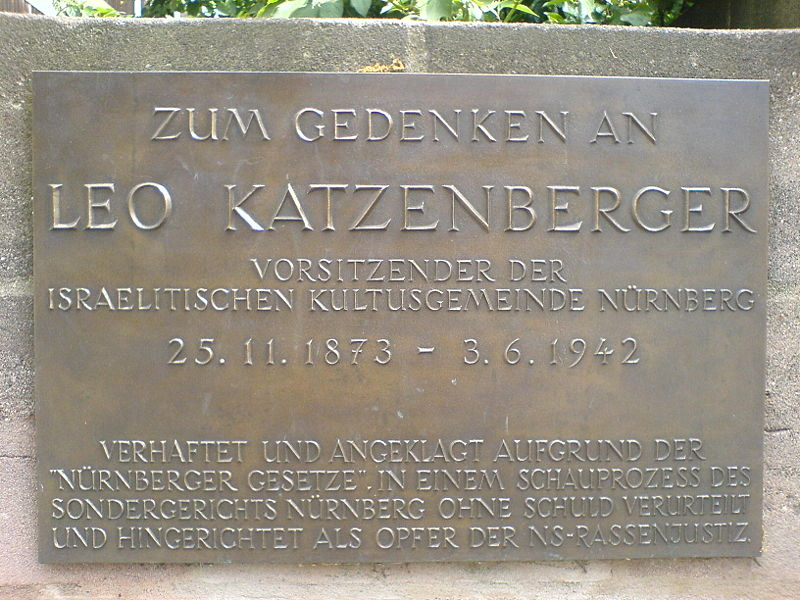 Memorial plate of Leo Katzenberger, killed by the nazis